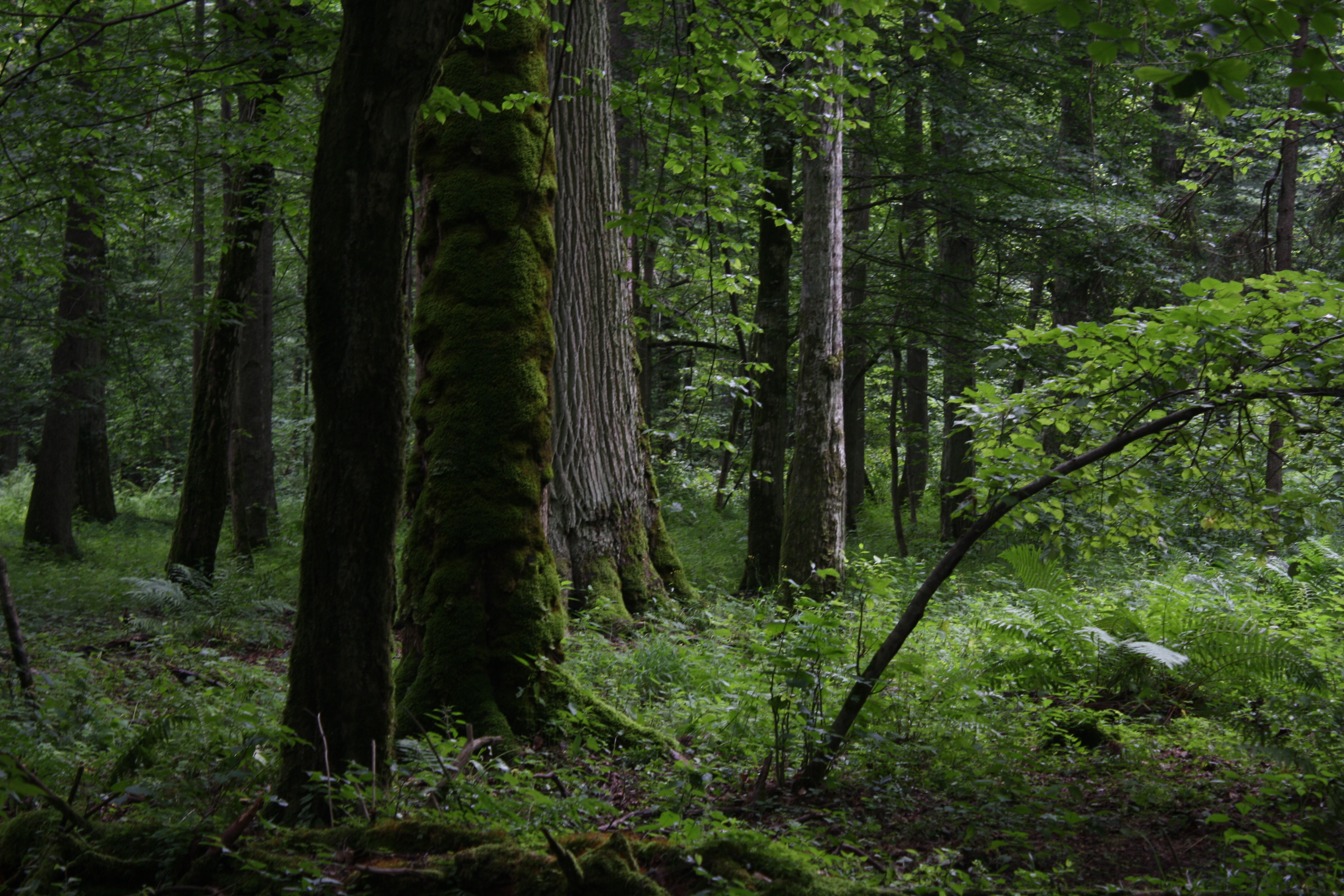 Białowieski National Park (Podlasie Voivodeship)